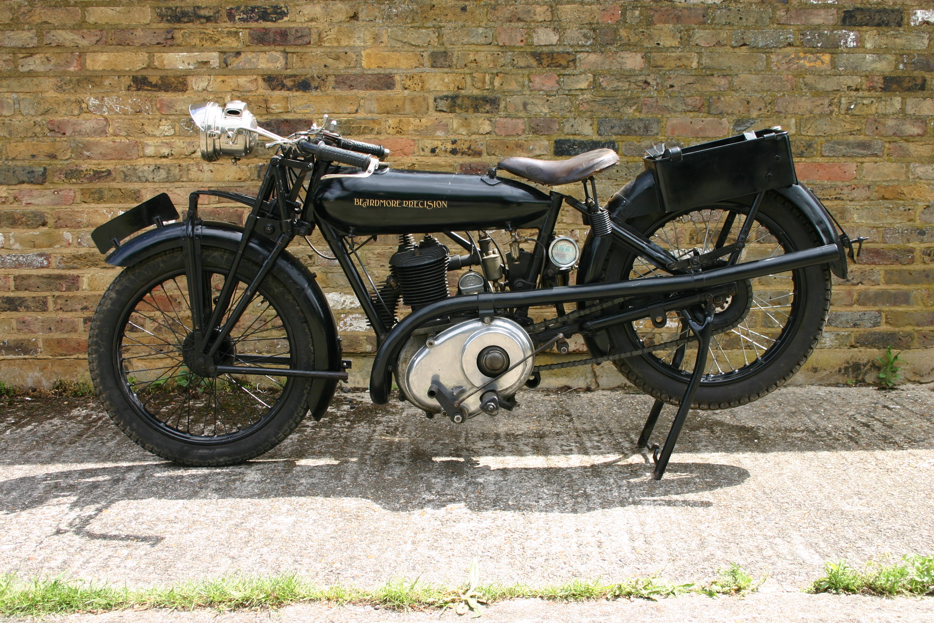 1925 Beardmore Precision motorcycle